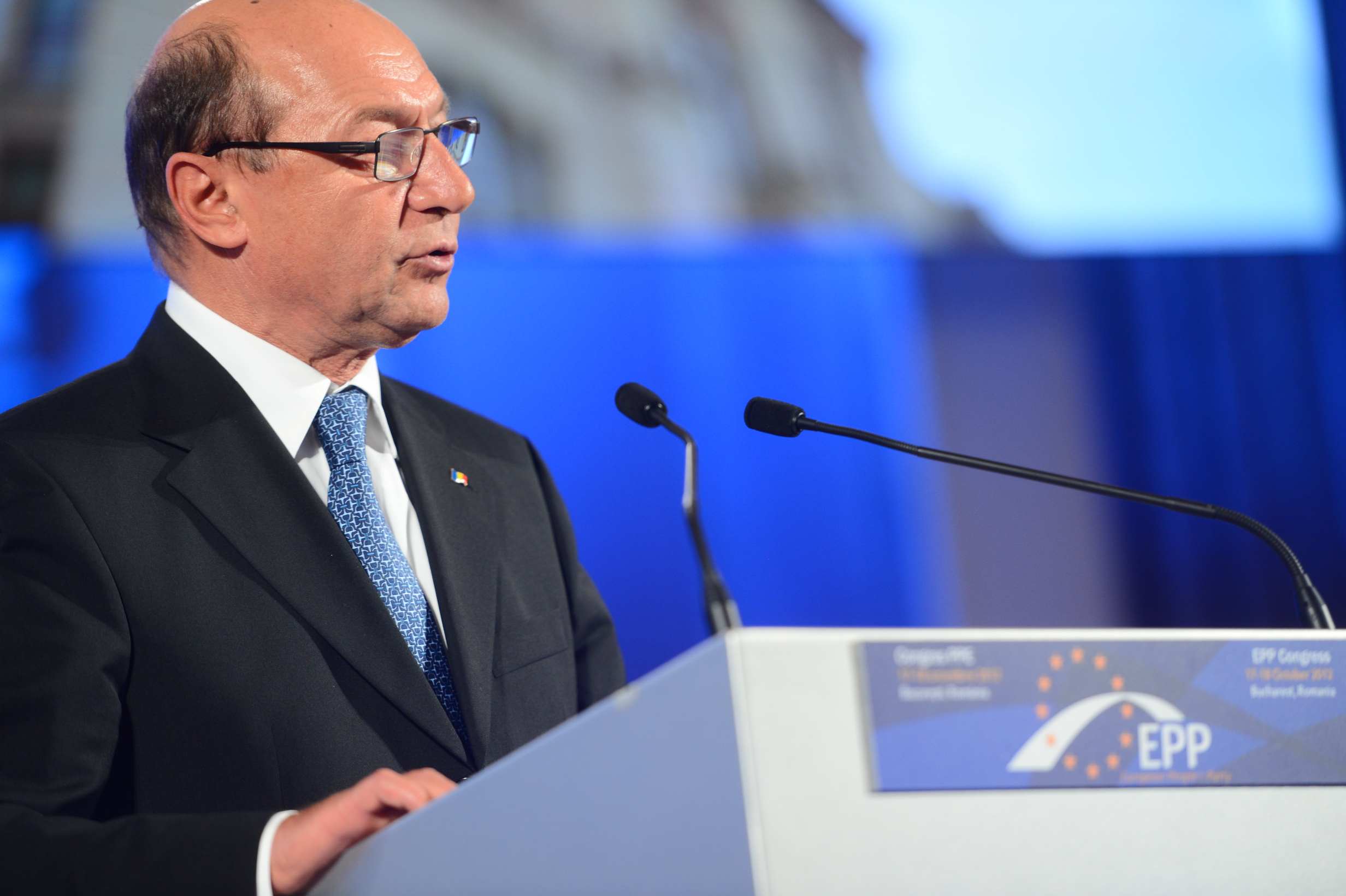 EPP_Congress_4677